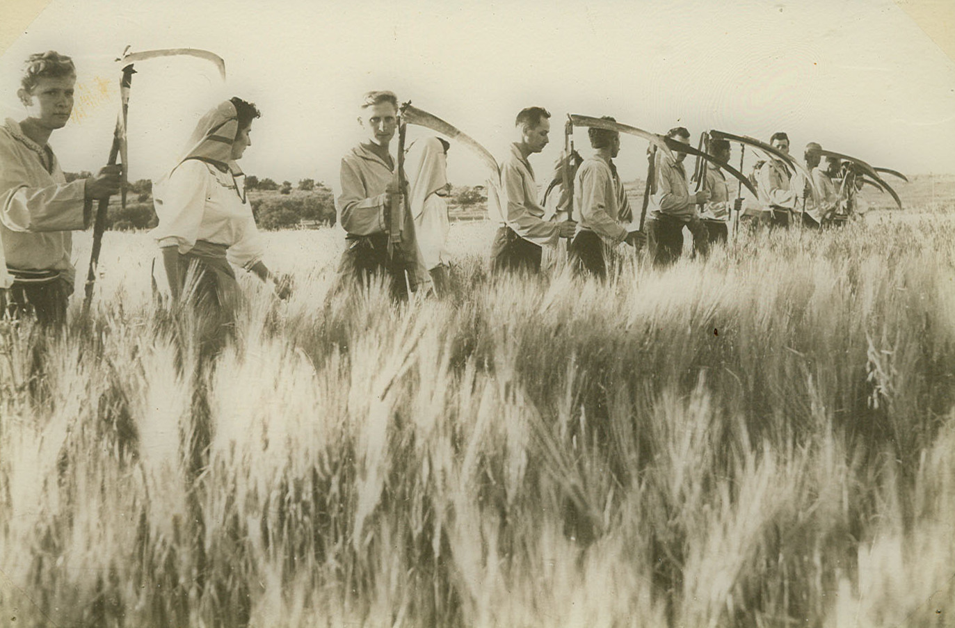 Ramat Yohanan - Omer festival, Jewish holidays